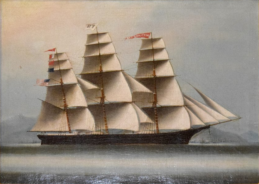 The American Clipper Ship "Neptune's Car" in Hong Kong Harbor. "Neptune's Car" built and launched in 1853 in the yard of Page & Allen at Portsmouth, Virginia for Foster & Nickerson of New York.